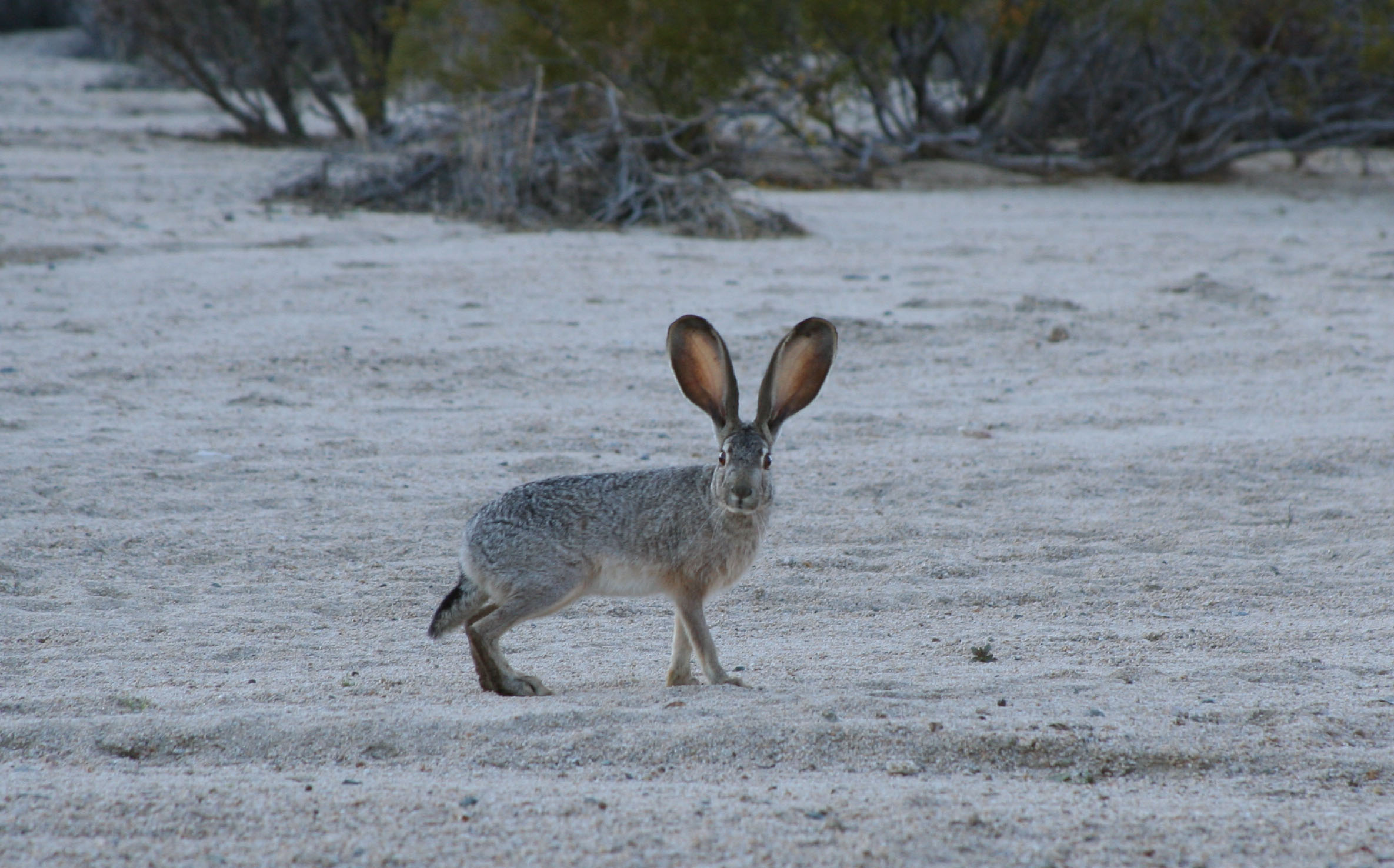 Photo of a black-tailed jackrabbit